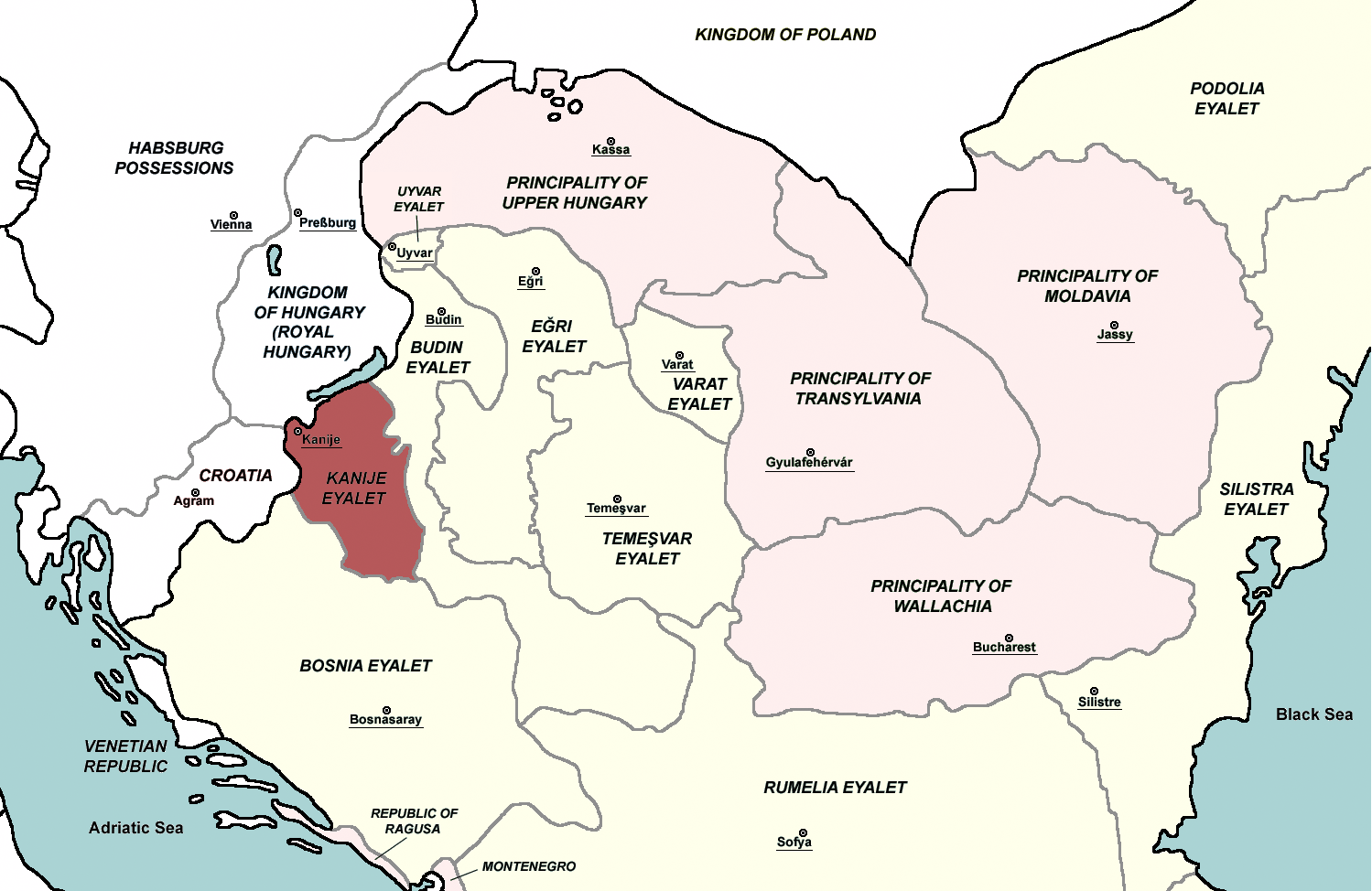 Kanije Eyalet in 1683. Tributary states of the Ottoman Empire are shown in pink.